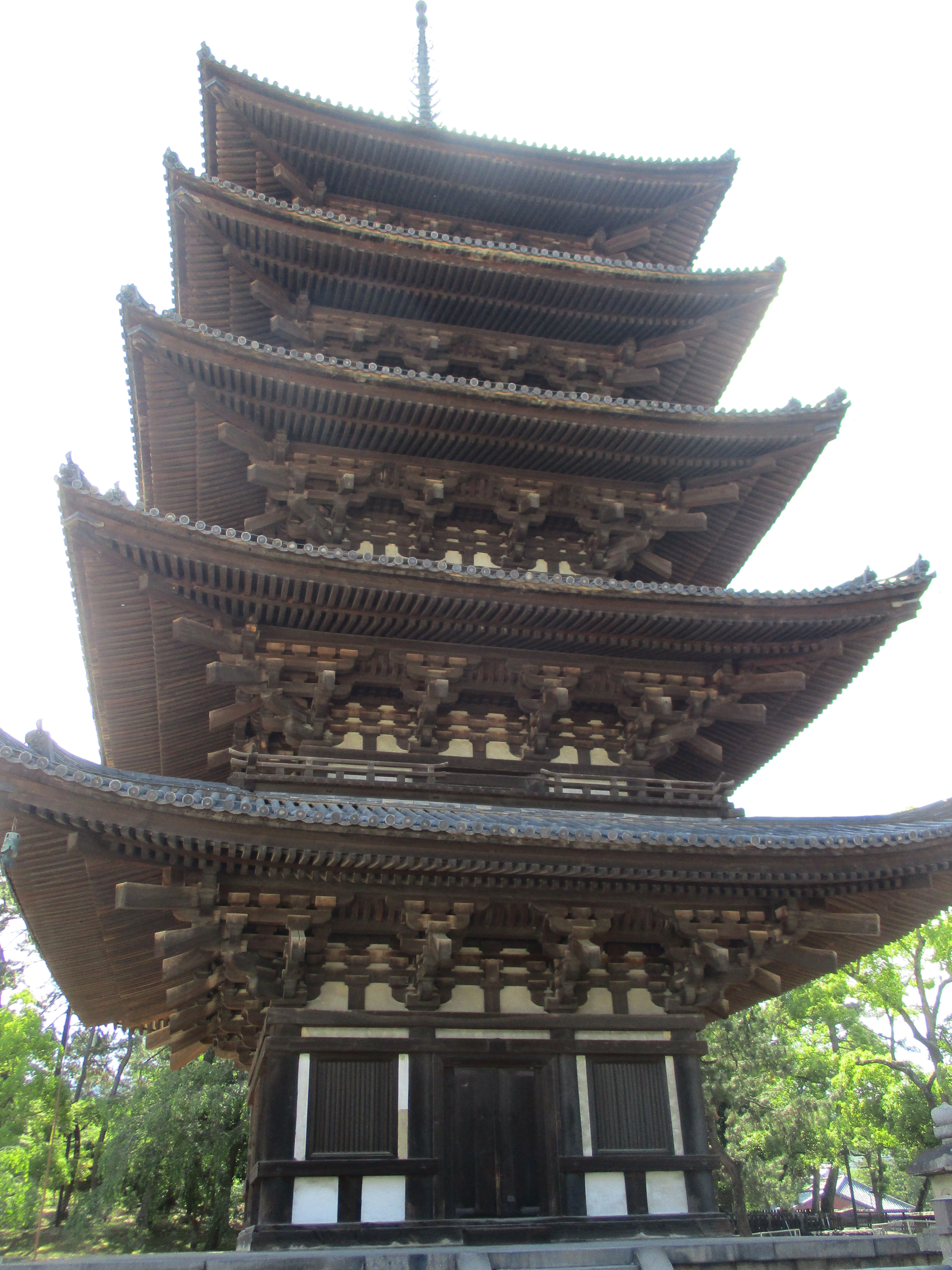 Kofukuji Pagoda, June 3rd, 2019, Nara, Japan.